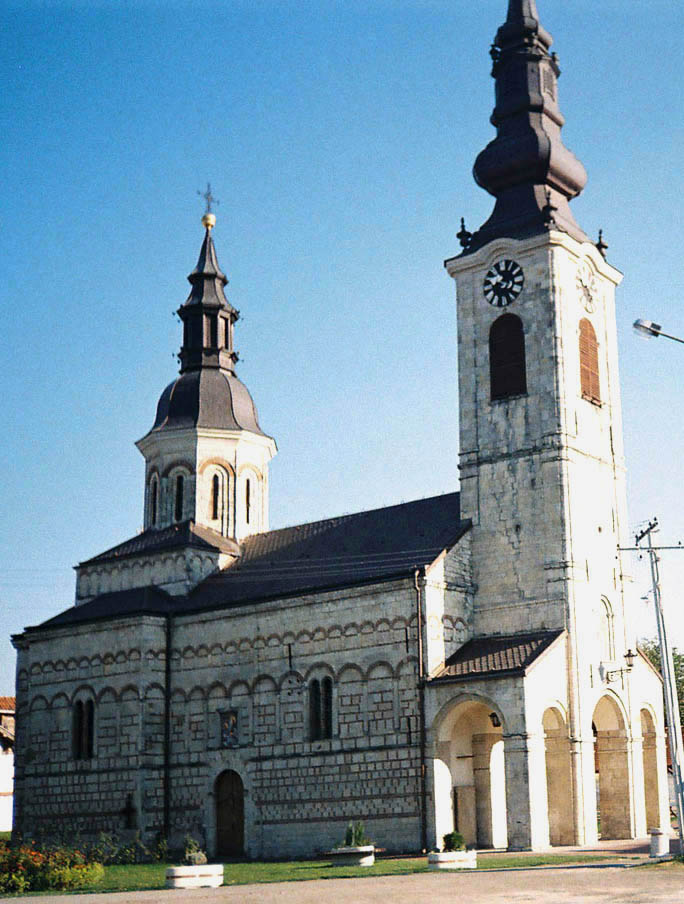 Image of Orthodox Church in Sremska Kamenica (self made) Category:Novi Sad images